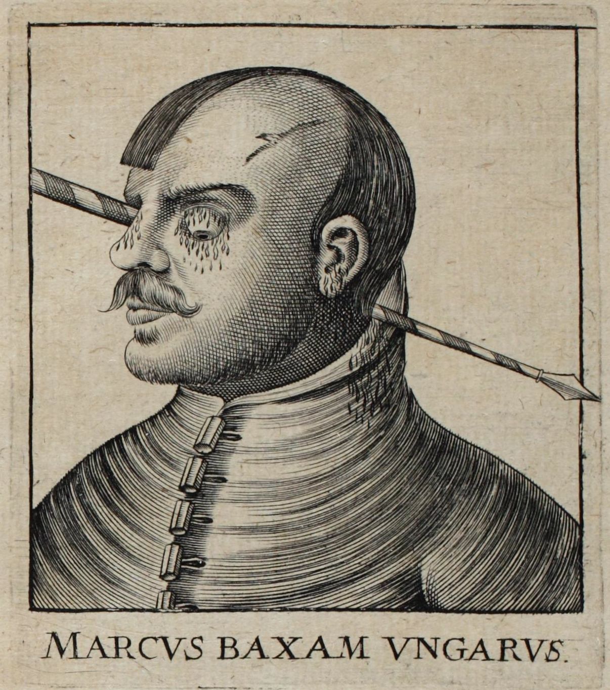 Copperplate engraving of Baksa Márk also known as Gregor Baci.